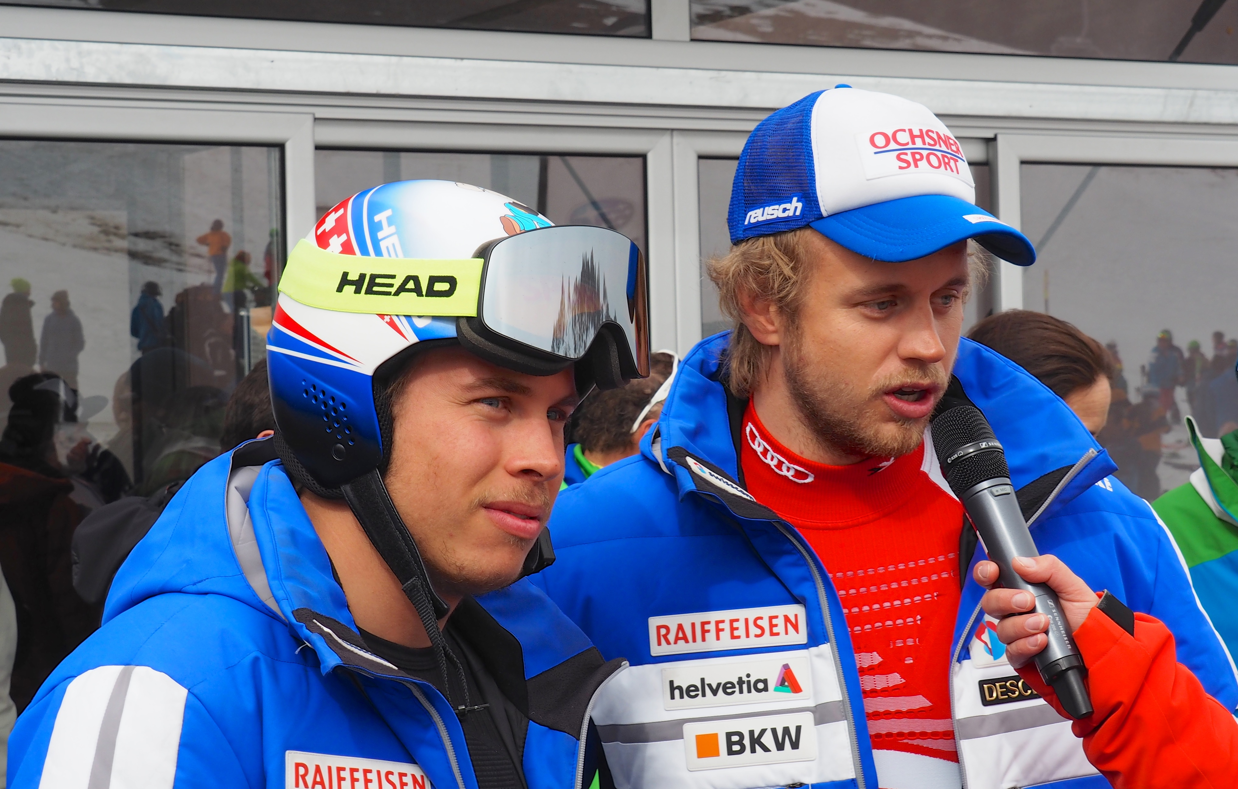 Brothers Gino and Mauro Caviezel, alpine skiers from Switzerland